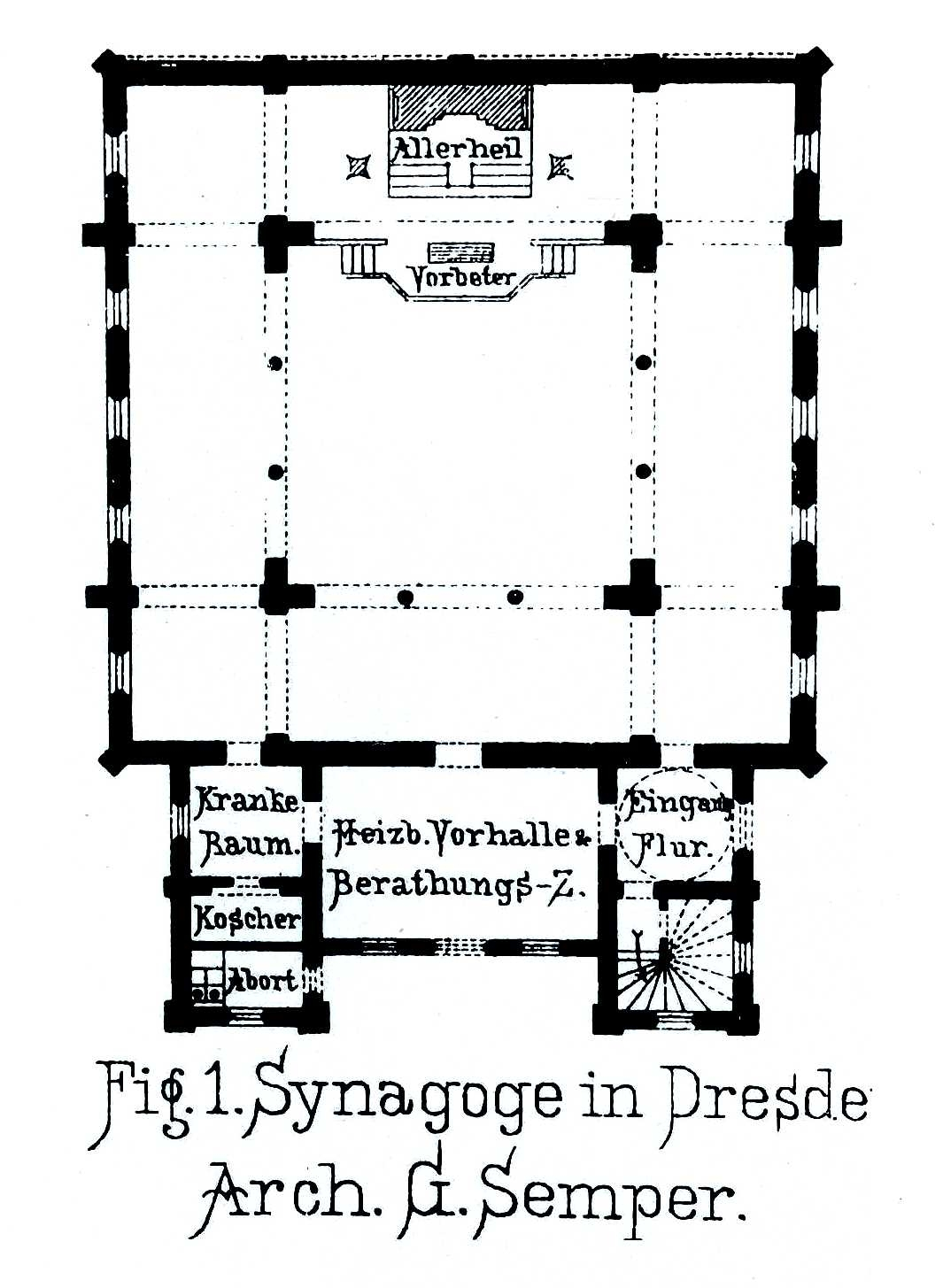 old synagogue Dresden